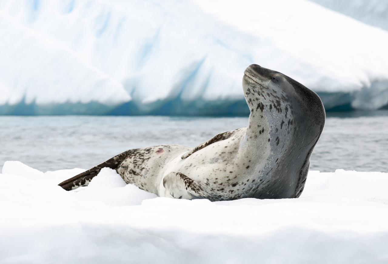 Antarctica 2013: Journey to the Crystal Desert